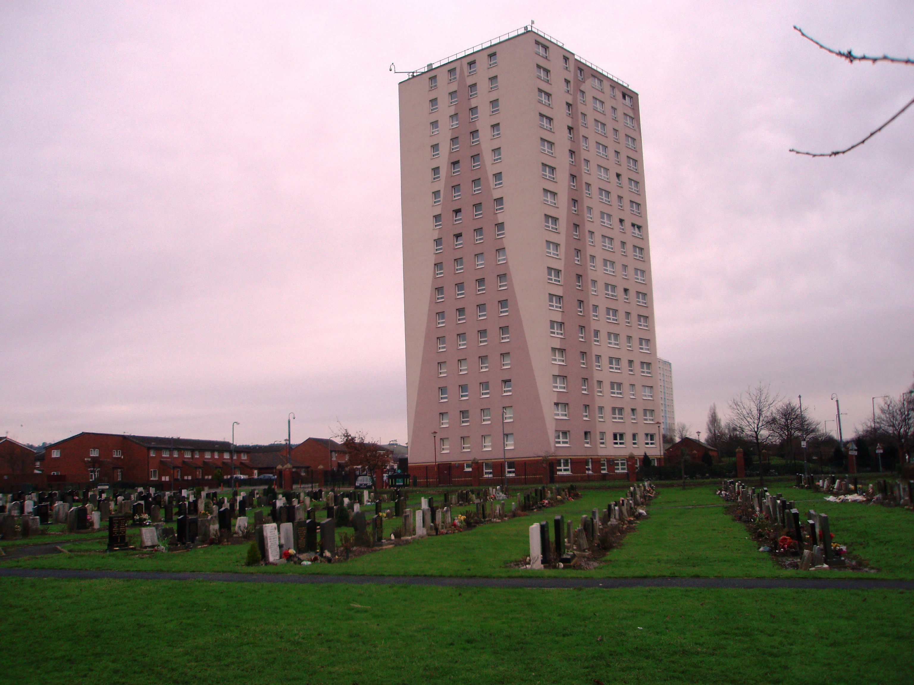 The Roman Catholic cemetery in Thorntree This photograph shows a view of part of the Roman Catholic cemetery in the Thorntree area of Middlesbrough. The picture was taken looking in a south-easterly direction towards Ormesby.